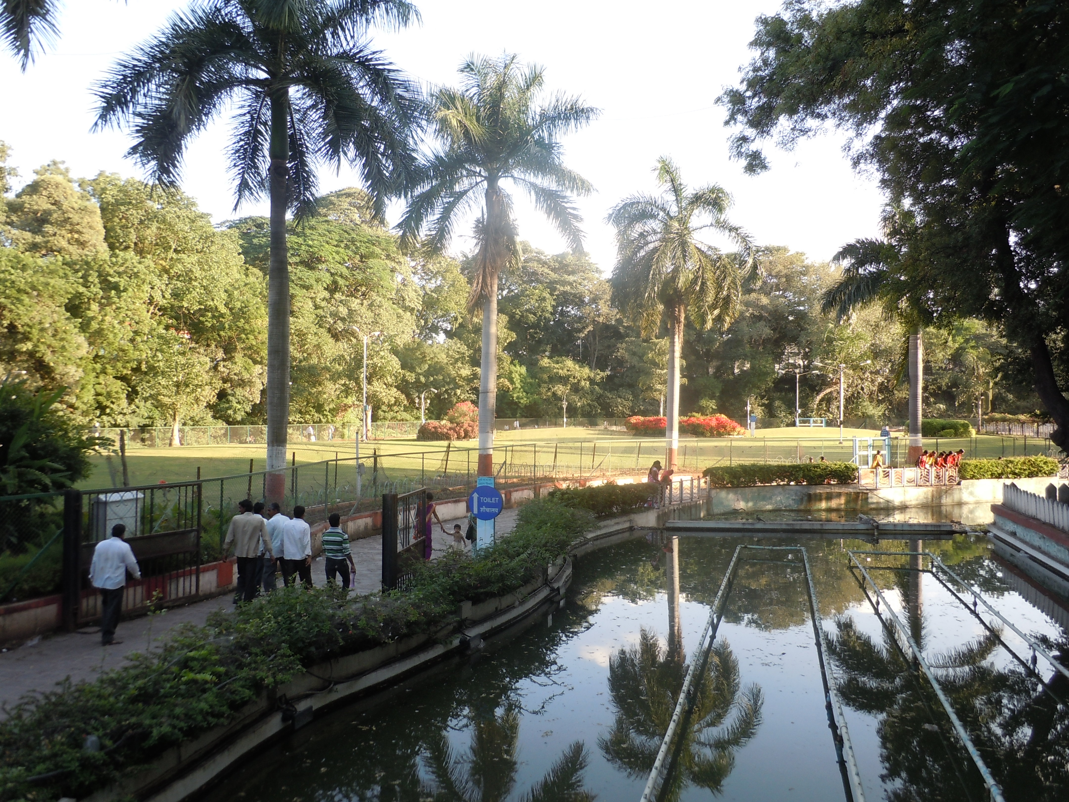 Saras Bagh,Pune,India